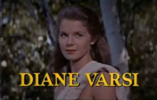 Diane Varsi plays Allison MacKenzie in "Peyton Place"